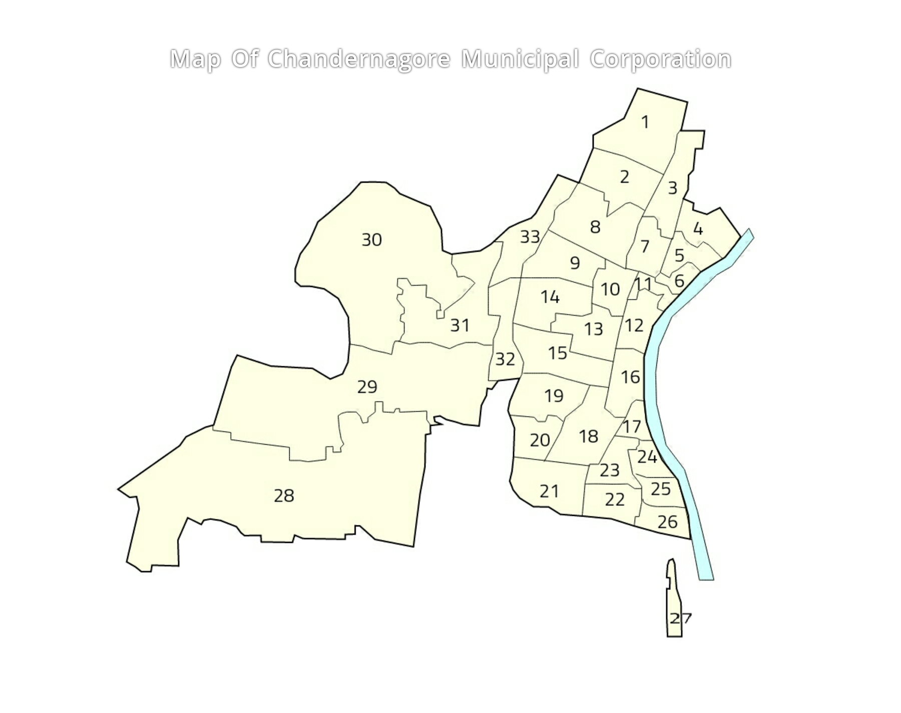 Map Of Chandernagore Municipal Corporation